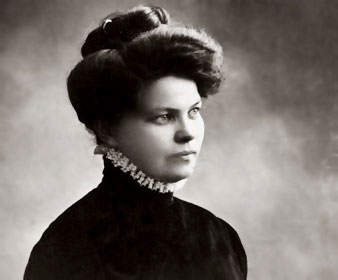 Writer Maria Jotuni 1880–1943, as young